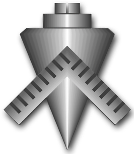 US Navy Builder (BU). Carpen­ter's square, points up, superimposed on plumb bob.